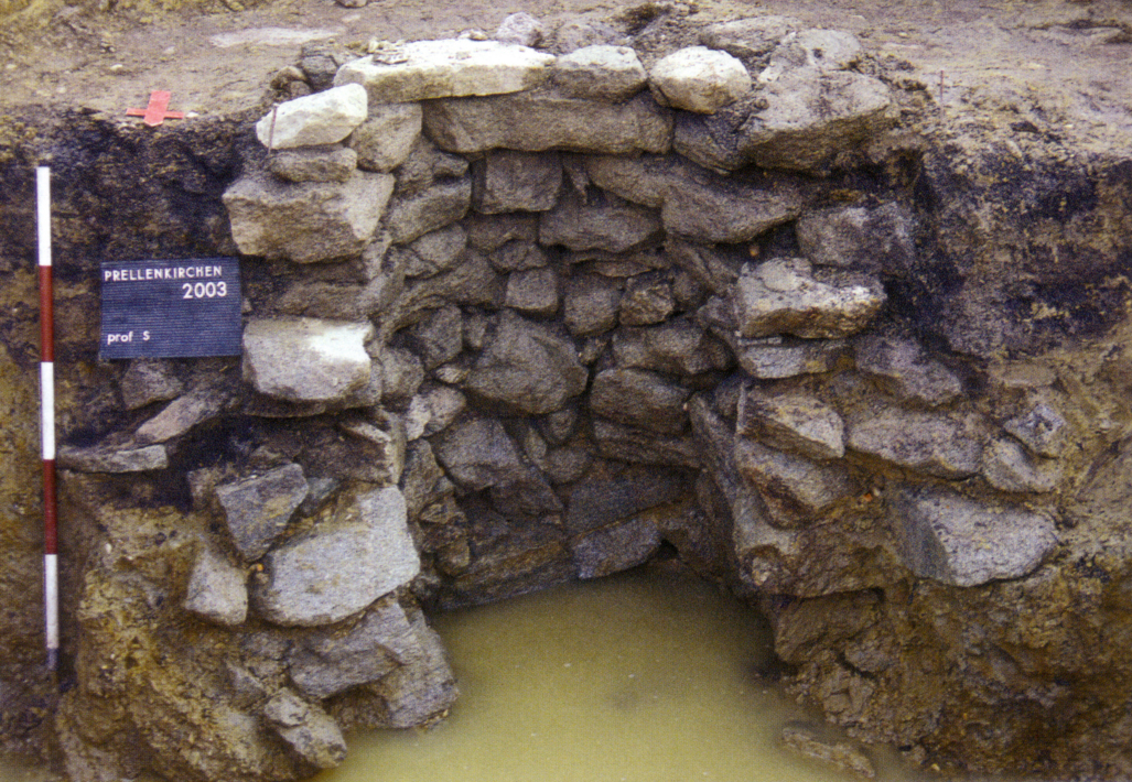 Celtic fountain